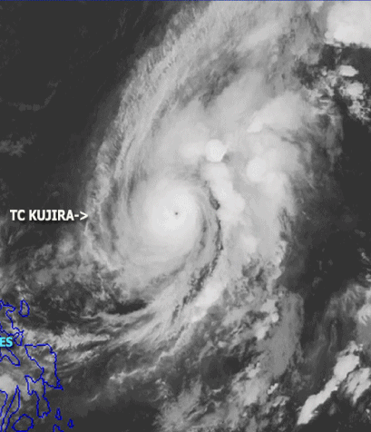 Typhoon Kujira